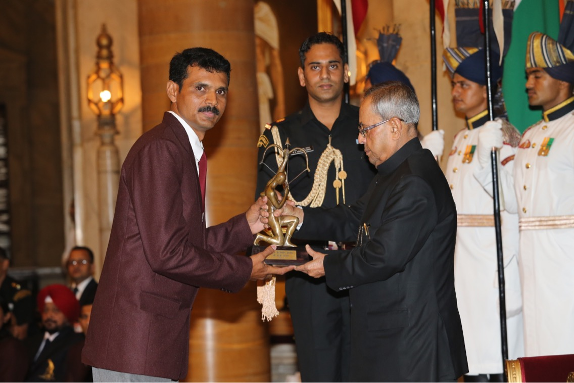 Rowing